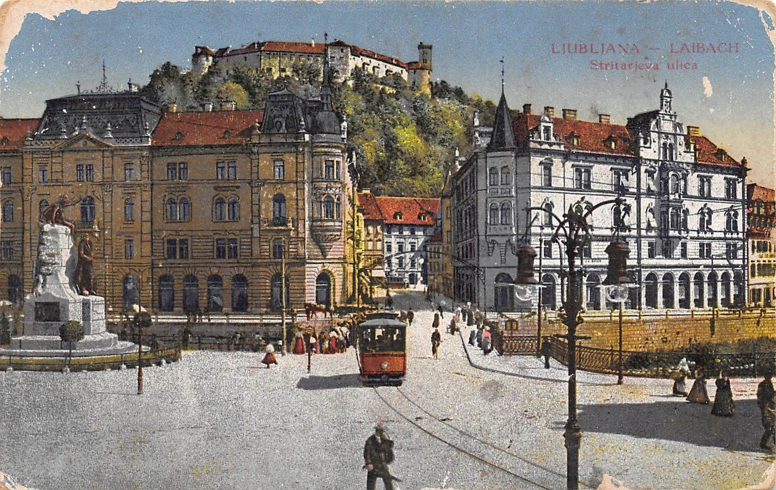 Postcard of Stritarjeva ulica.